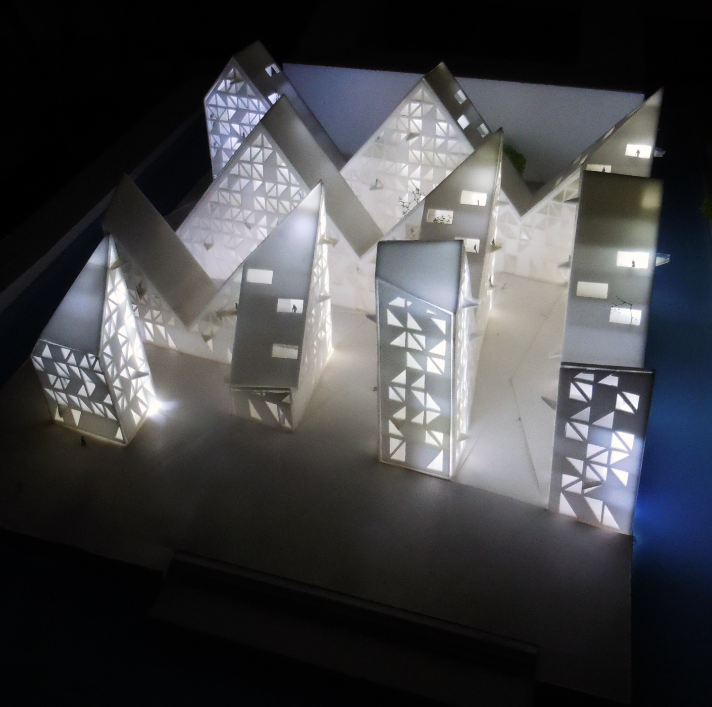 Mockups of Iceberg Project (Århus, Danemark) by Julien De Smedt. Picture taken in Brussels during the opening of the exhibition "This Might Not Be Appropriate", a retropective of his work from 2001 to 2013.